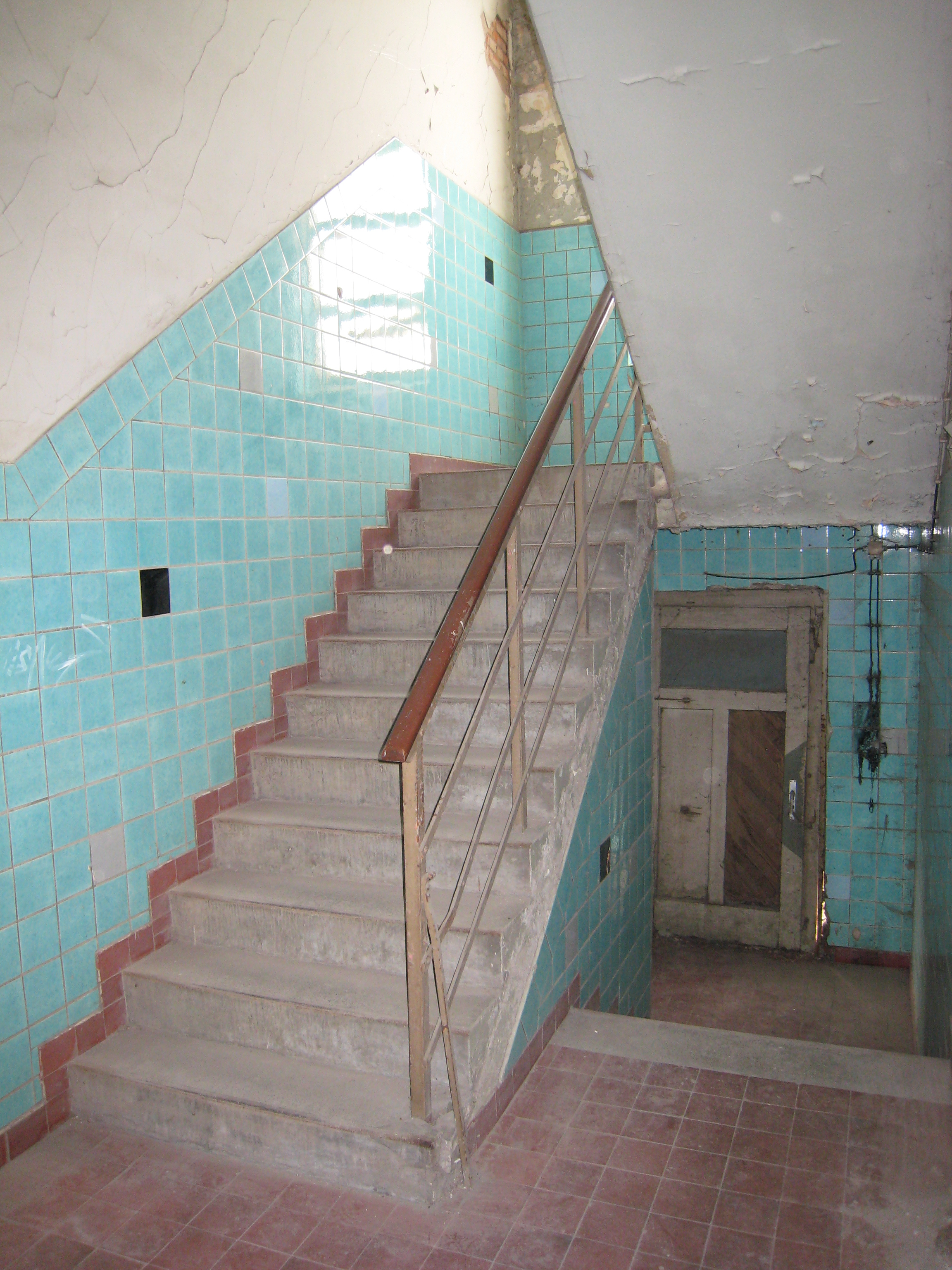 Milchhof Arnstadt